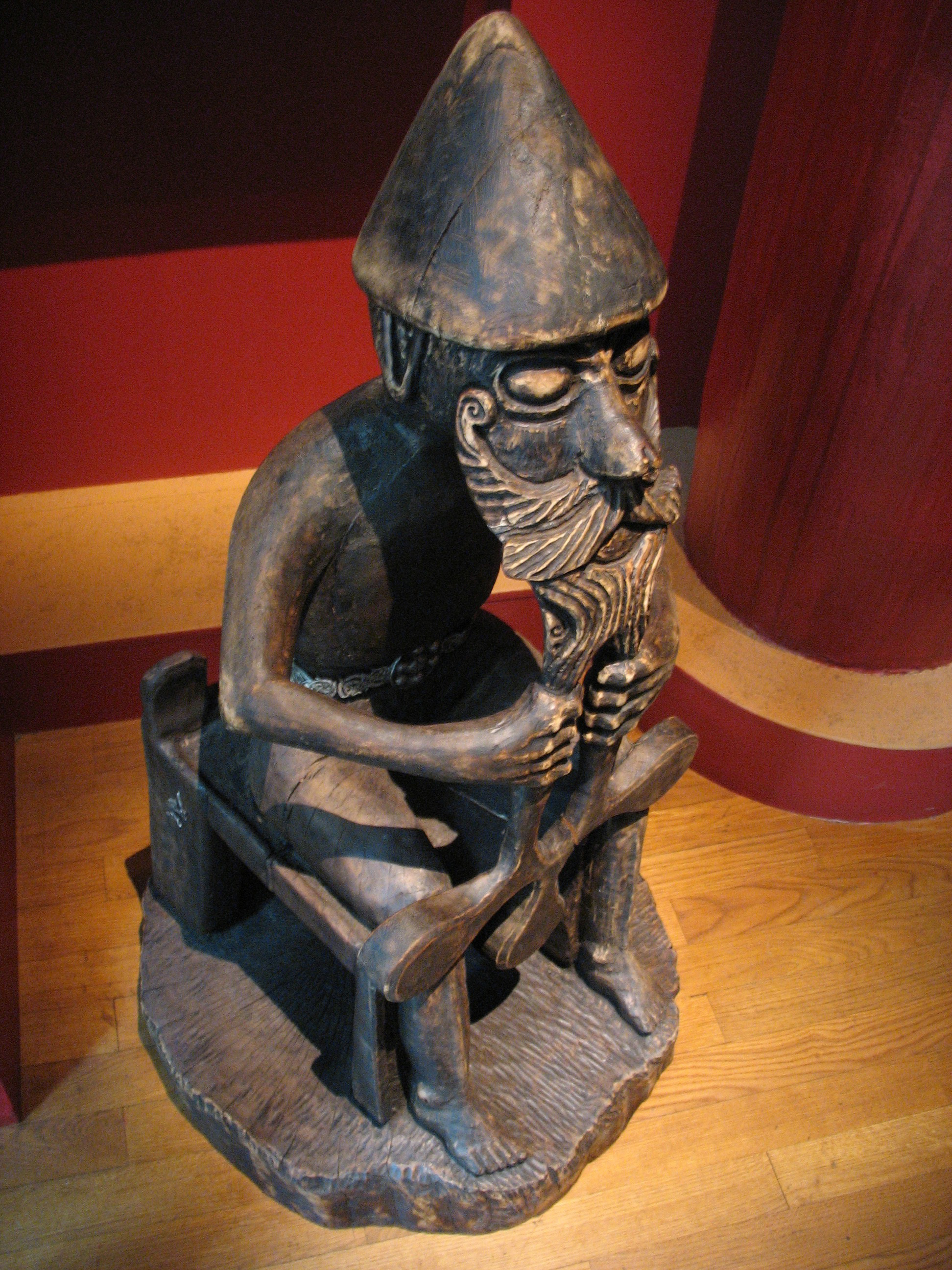 A reproduction in wood of an Icelandic original known as the Eyrarland statue depicting the Germanic war and thunder god Thor, displayed at the Swedish Army Museum.